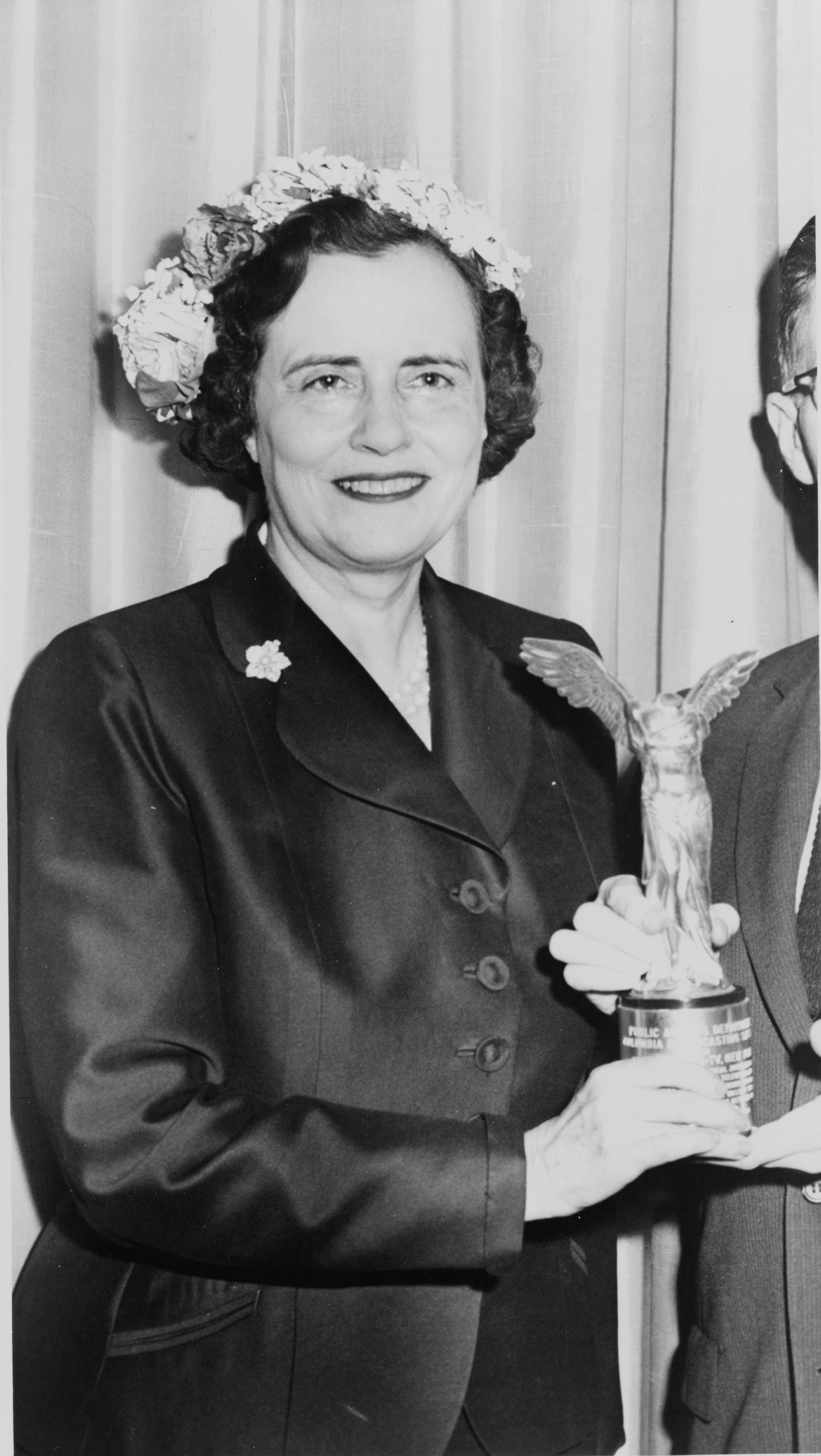 Mary Lasker (1900-1994) was an American health activist. She worked to raise funds for medical research, and founded the Lasker Foundation. She was married to Albert Lasker. One of the Lasker Awards was named in her honour Mary Woodard Lasker Award for Public Service in 2000. (This summary was created using Commons SumItUp)